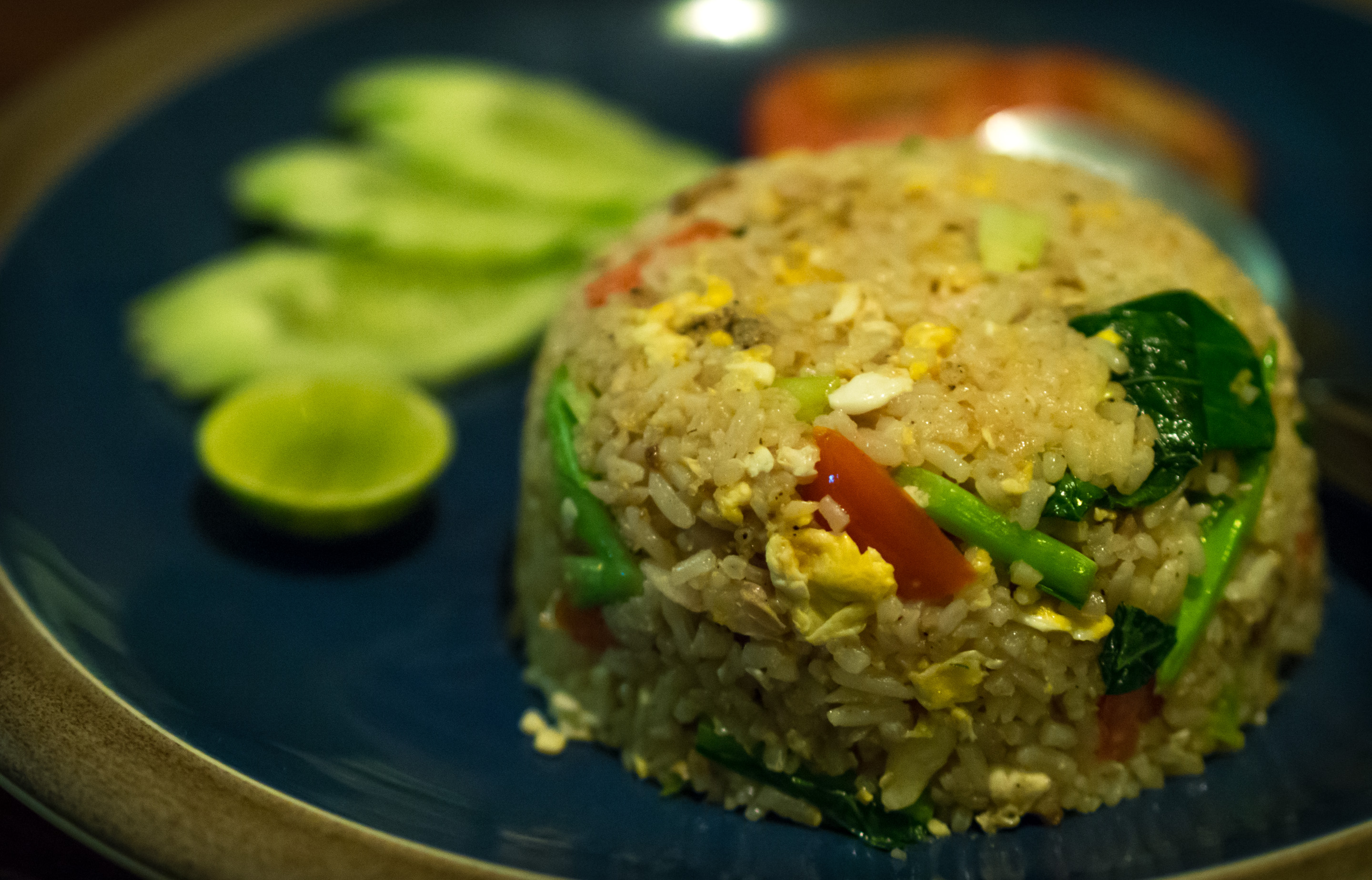 Khao phat mu (Thai script: ข้าวผัดหมู) is Thai style fried rice with pork.